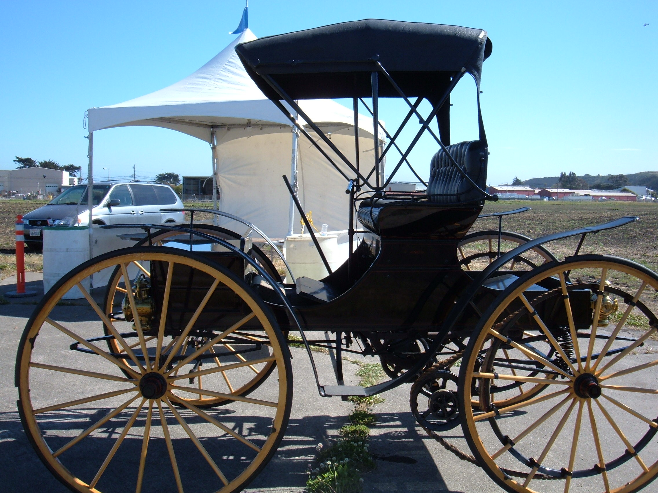 A 1904 Holsman Model 3 Hi-Wheeler at the Pacific Coast Dream Machines vehicle show at the Half Moon Bay Airport in Half Moon Bay, California.